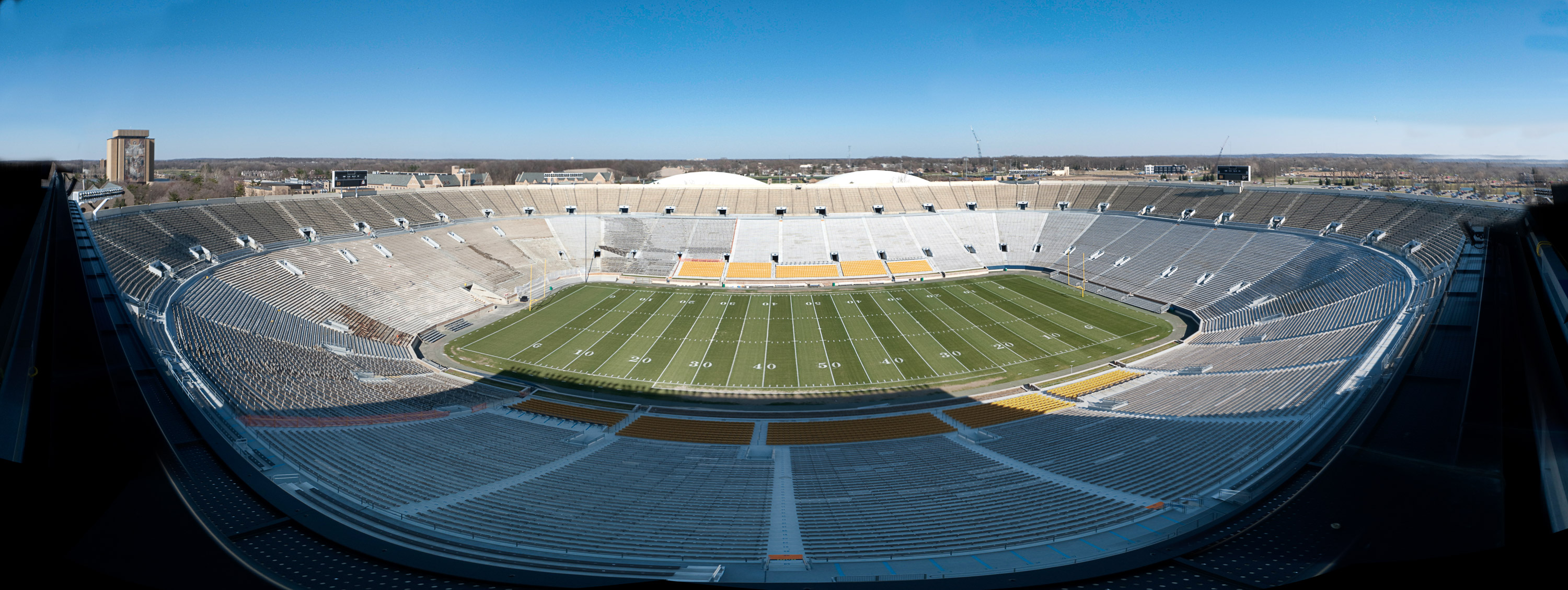 Panorama of the football field at Notre Dame Stadium